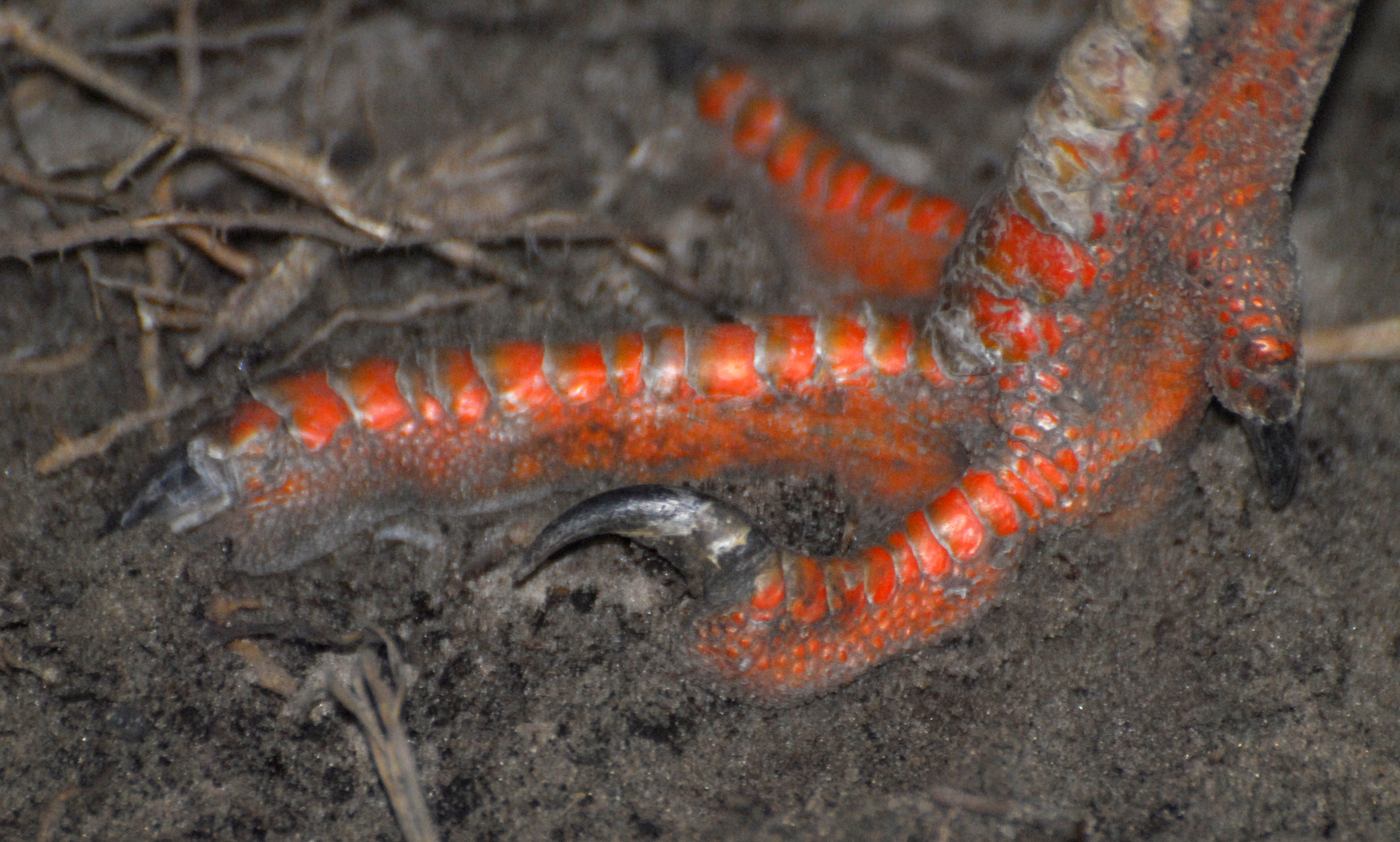 The sickle claw of a red legged seriama.